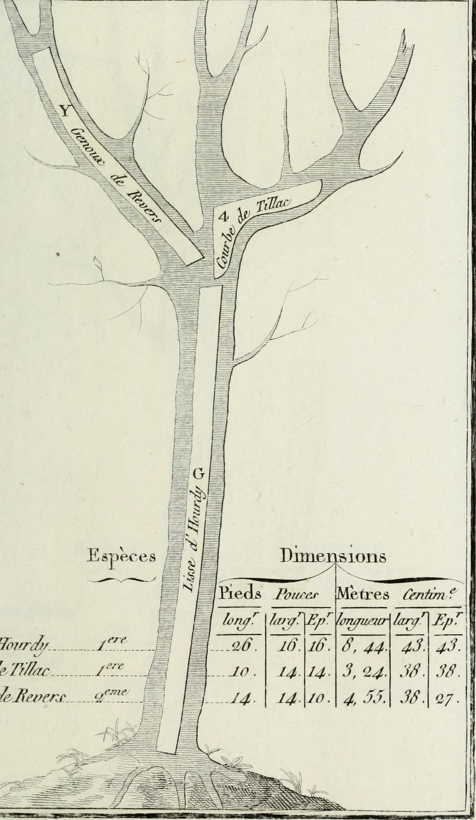 Title: Manuale ad uso degli agenti dei boschi e della marina ... Year: 1807 (1800s) Authors: Goujon, Louis Joseph Marie Achille, 1746-1810 Cavagna Sangiuliani di Gualdana, Antonio, conte, 1843-1913, former owner. IU-R Subjects: Shipbuilding Naval art and science Publisher: Milano : Stamperia reale Text Appearing Before Image: XI Aflo7icf& de ù)rnier&- J^lt iSBoû droit. 4™ PI. 8 Text Appearing After Image: Çr Lupe dUòirrdt/....... /.^___JH Mi afi Y fon nix de.Hi